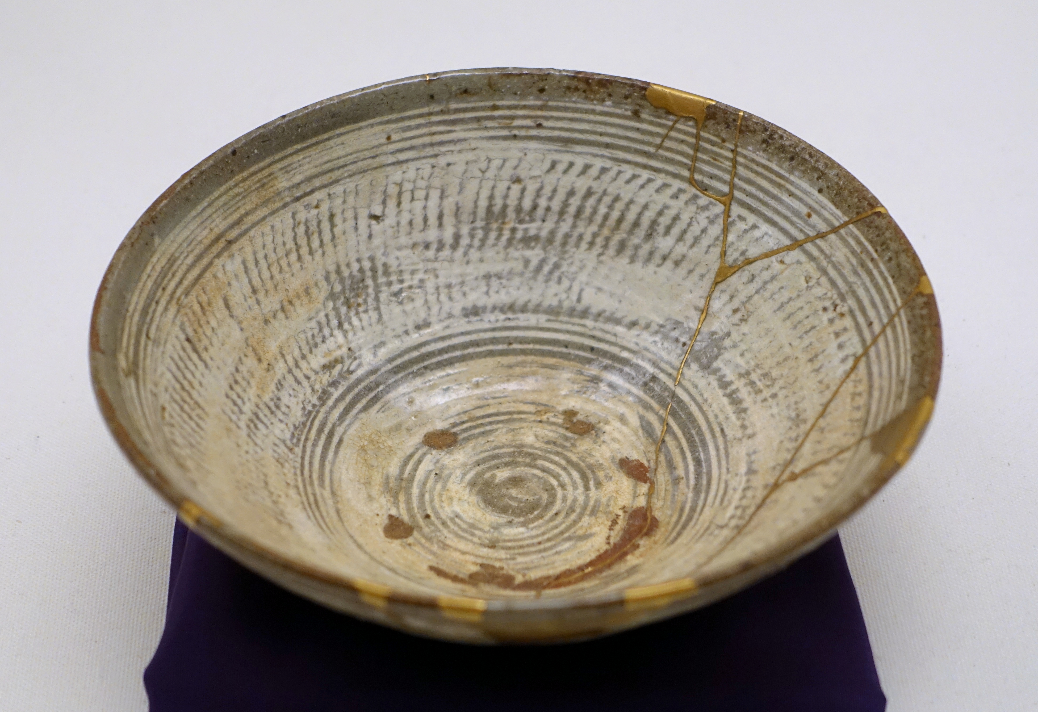 Exhibit in the Ethnological Museum, Berlin, Germany.